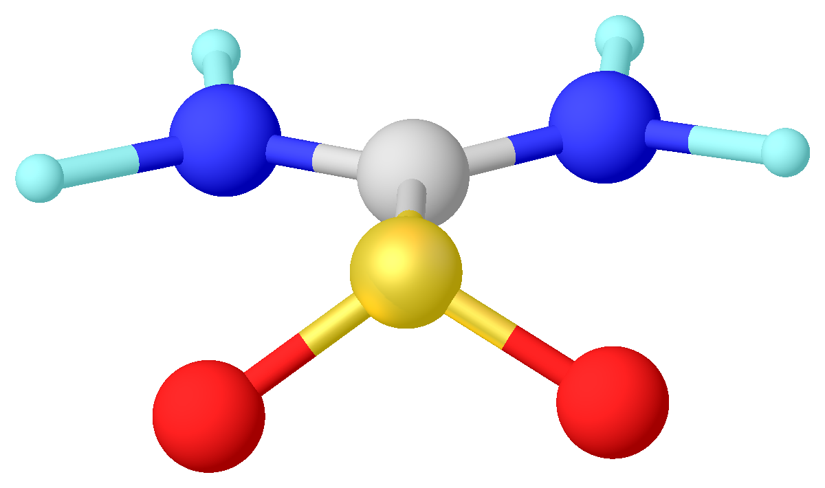 Structure of (H2N)2C=SO2 from doi 10.1107/S0365110X62001851.